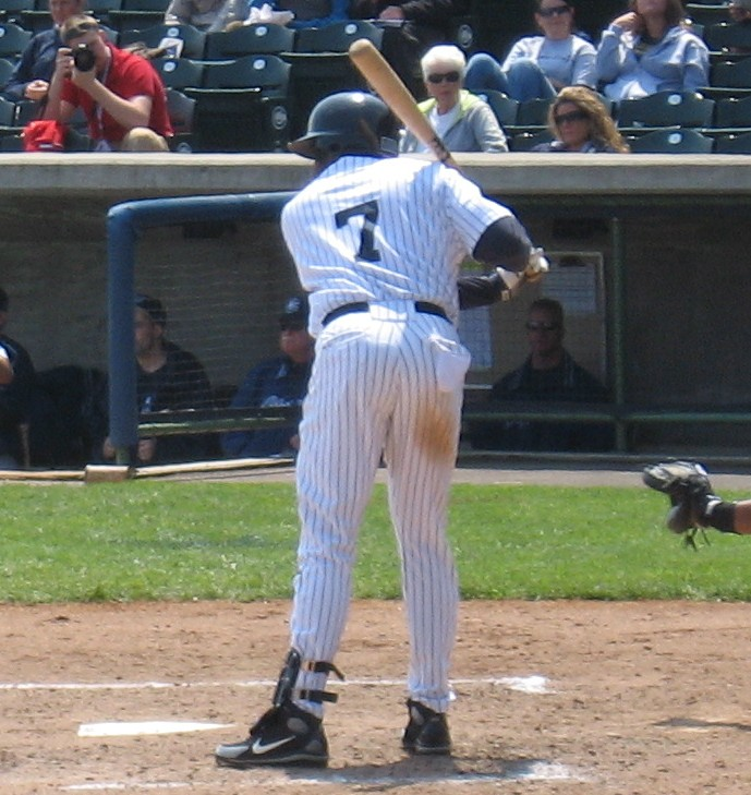 Columbus Clippers third baseman Tony Batista 08:30, 26 July 2007 . . Haltrosky . . 689×729 (133 KB)